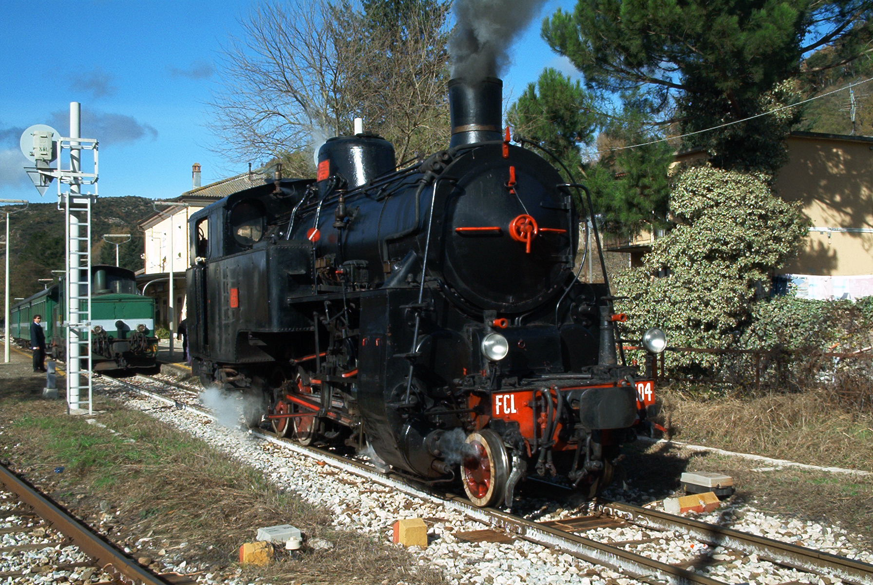 FCL 504 steam locomotive in Madonna di Porto